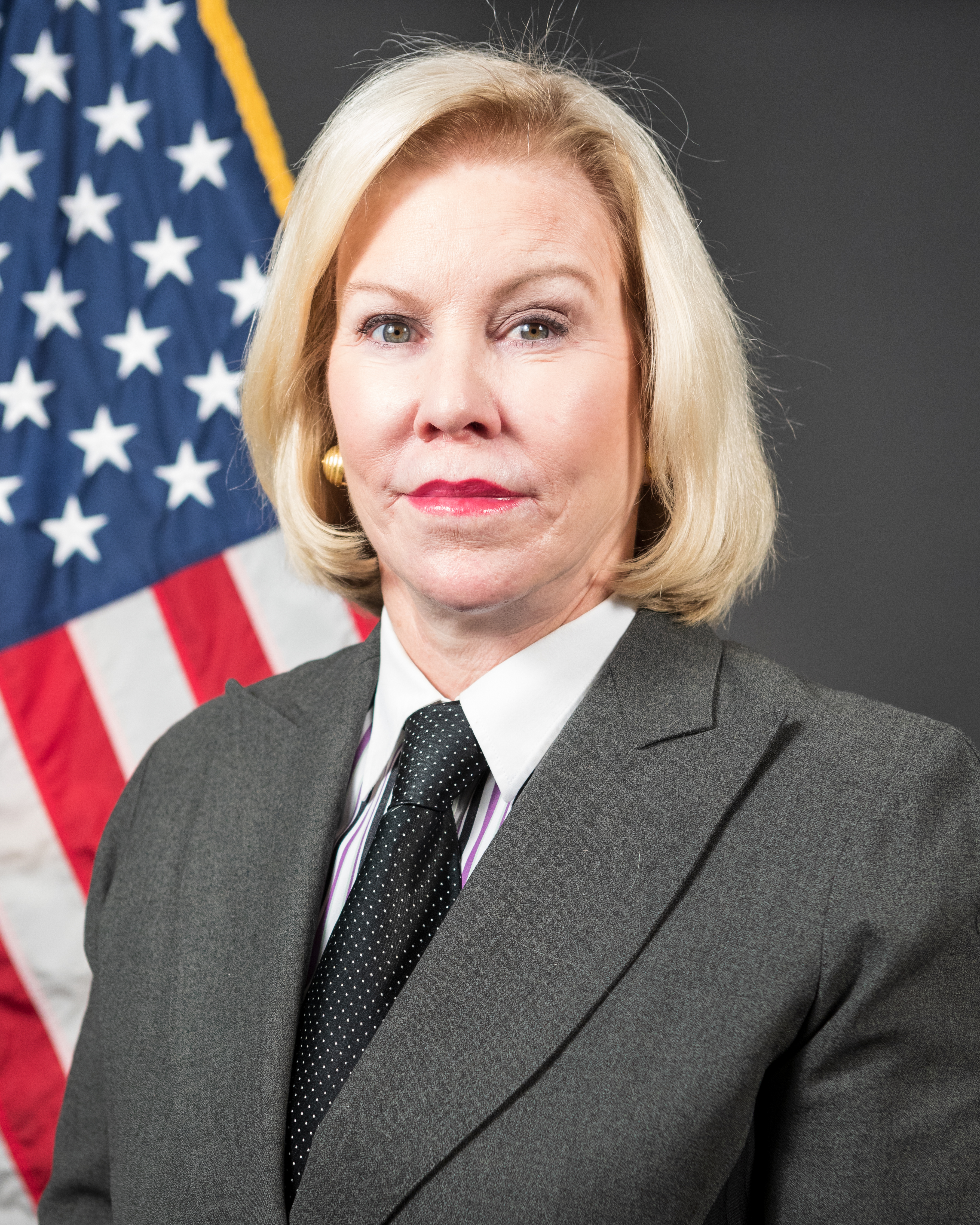 Dorothy Gray, American Battle Monuments Commissioner official photo